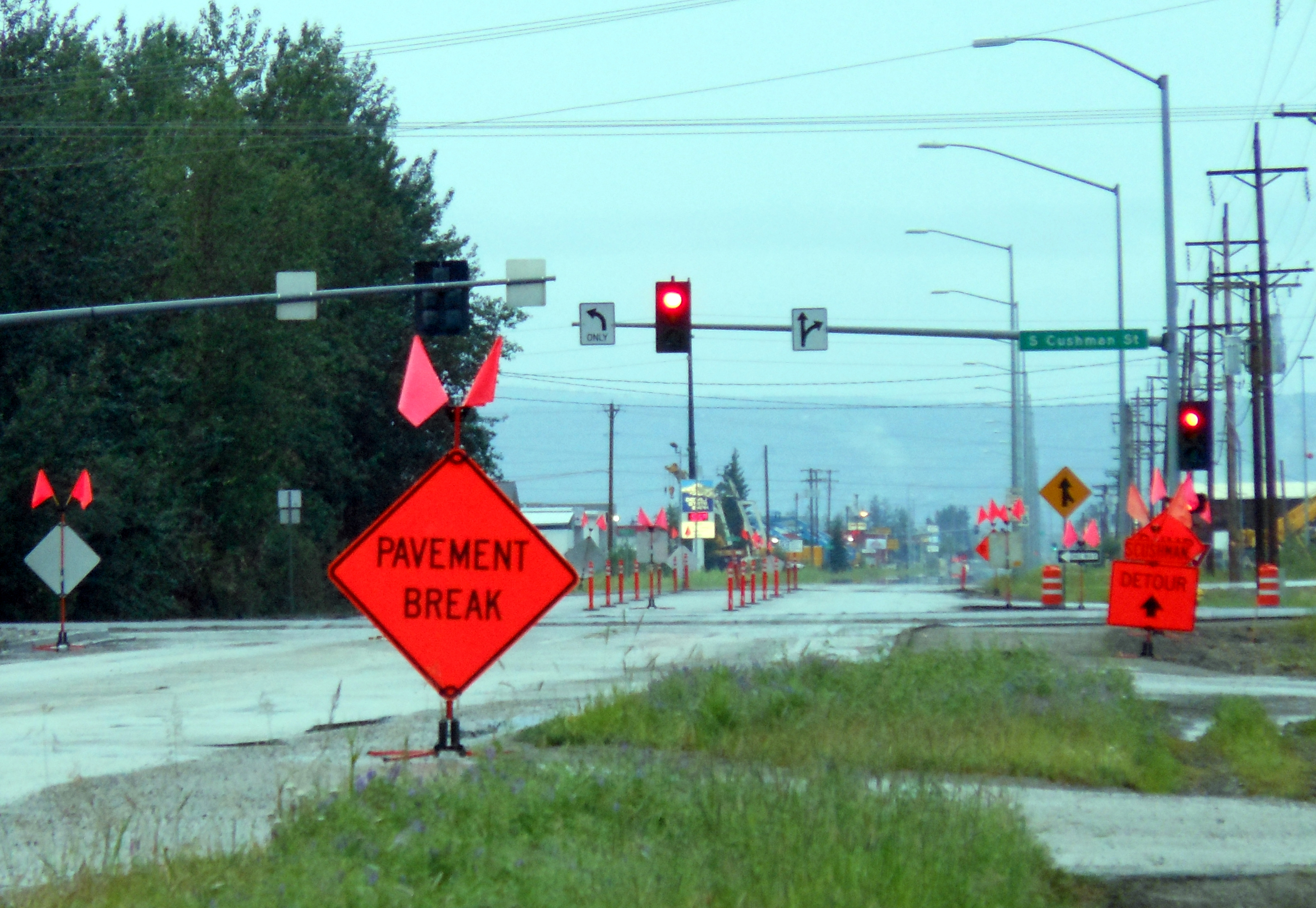 The eastern end of Van Horn Road in Fairbanks, Alaska. Most of the area depicted lies along the border between Fairbanks city limits and the census-designated place boundaries of South Van Horn. The buildings shown in the background sit mainly in South Van Horn. Most of that development came about due to the Fairbanks North Star Borough government establishing a tax differential zone and deferment program to encourage development around the turn of the 21st century, something they also did with the commercial area at the eastern end of the Johansen Expressway.